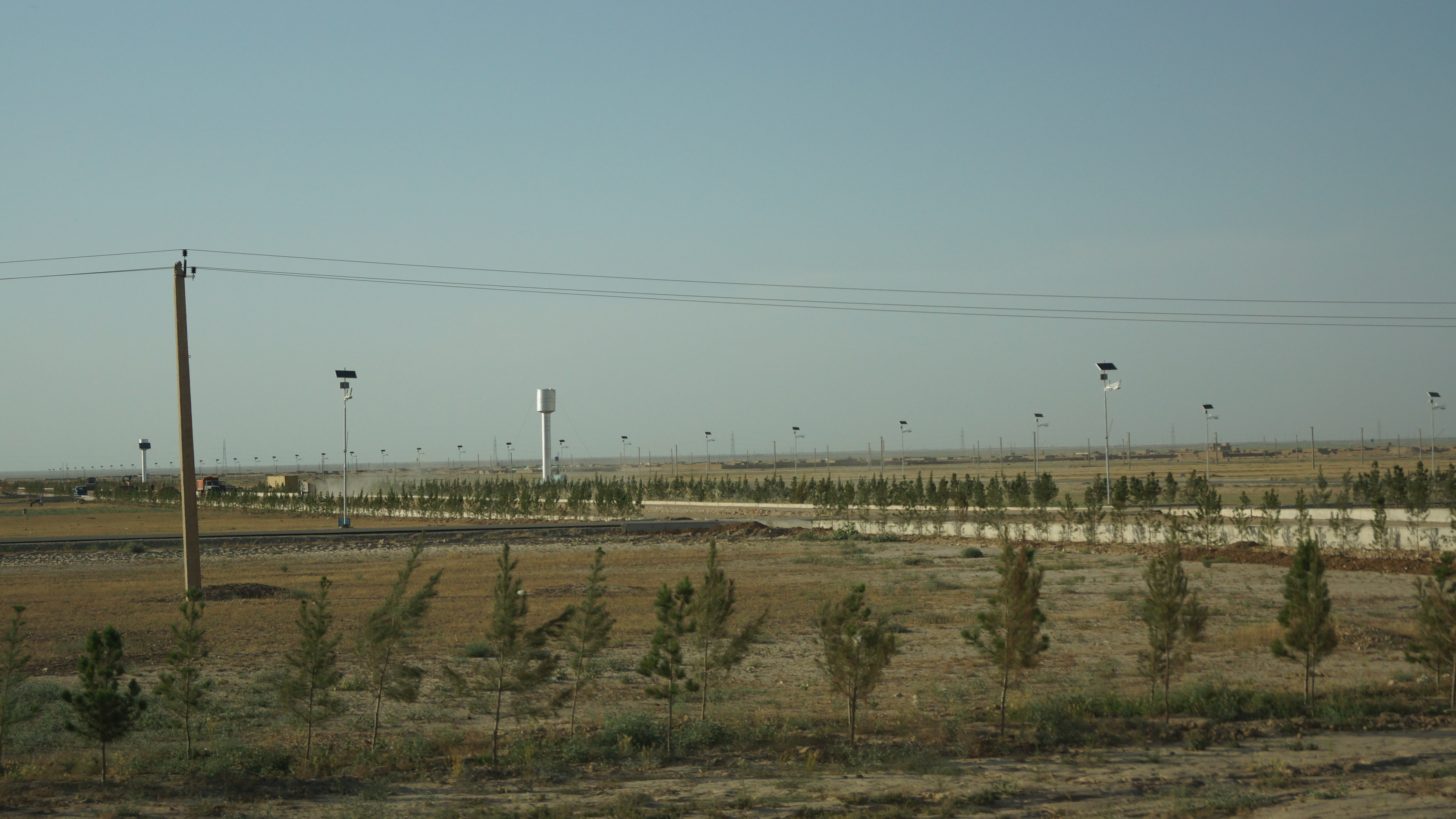 Solarlights in northern Afghanistan.